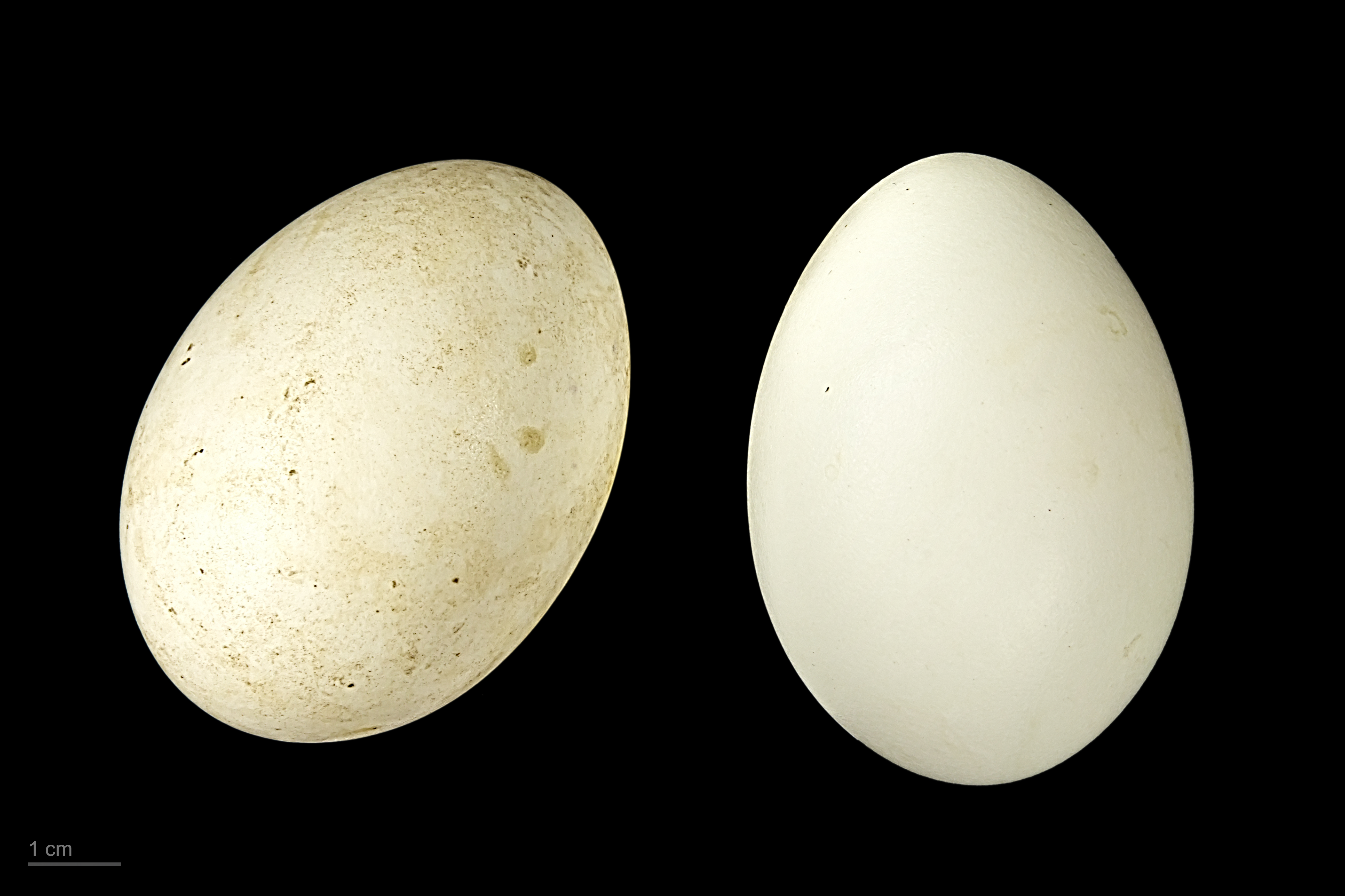 Eggs of common shelduck Two specimens of the same spawn ; collection of Jacques Perrin de Brichambaut.